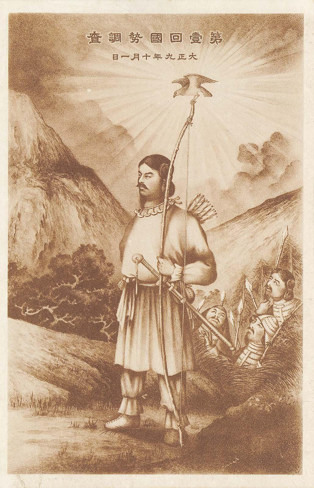 Emperor Jinmfrom the front cover of the first National Census book 1920 in Japan 第一回国勢調査の表紙の絵柄として選ばれた神武天皇。1920年